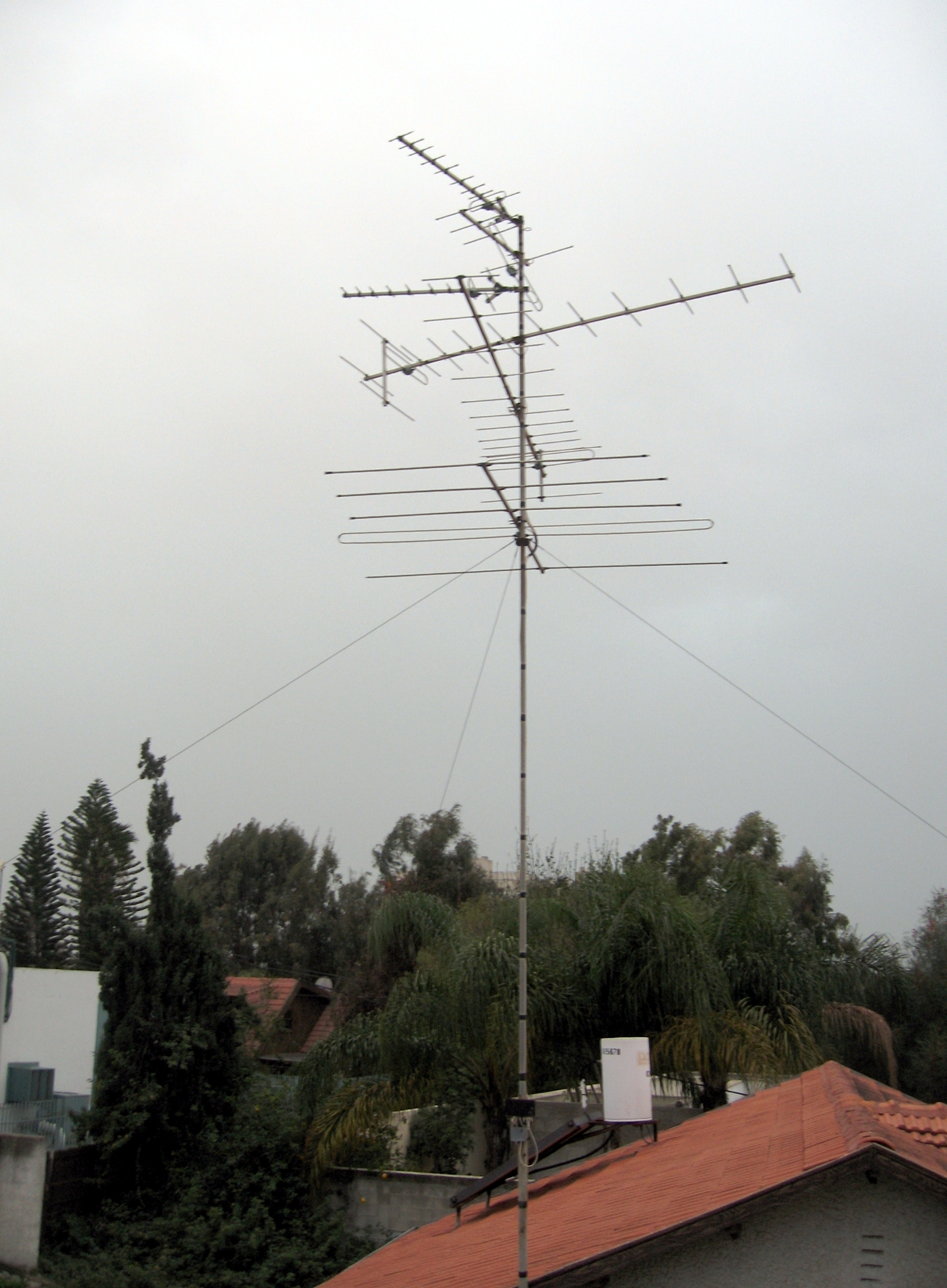 Television antennas. These six antennas are of a type called a Yagi-Uda antenna, widely used for television reception at VHF and UHF frequencies. They consist of a series of parallel metal rods. One pair of rods, called the driven element, collects the radio waves and is attached to a cable that conducts the television signal to the television. The other rods, called parasitic elements, serve to increase the sensitivity of the antenna to signals coming from a particular direction.